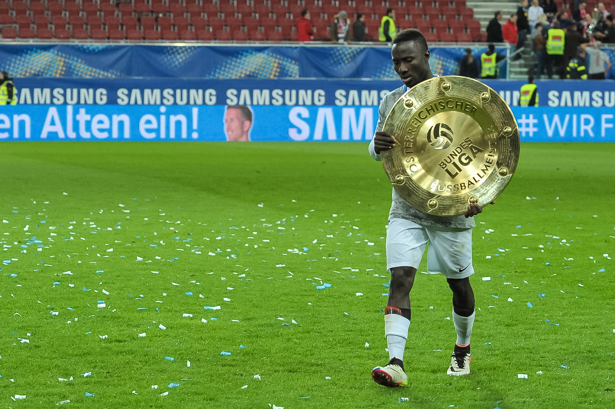 ÖFB Samsung Cup-Finale - FC Admira Wacker Mödling vs FC Red Bull Salzburg am 19. Mai 2016 in Klagenfurt. Bild zeigt Naby Keita (RBS).